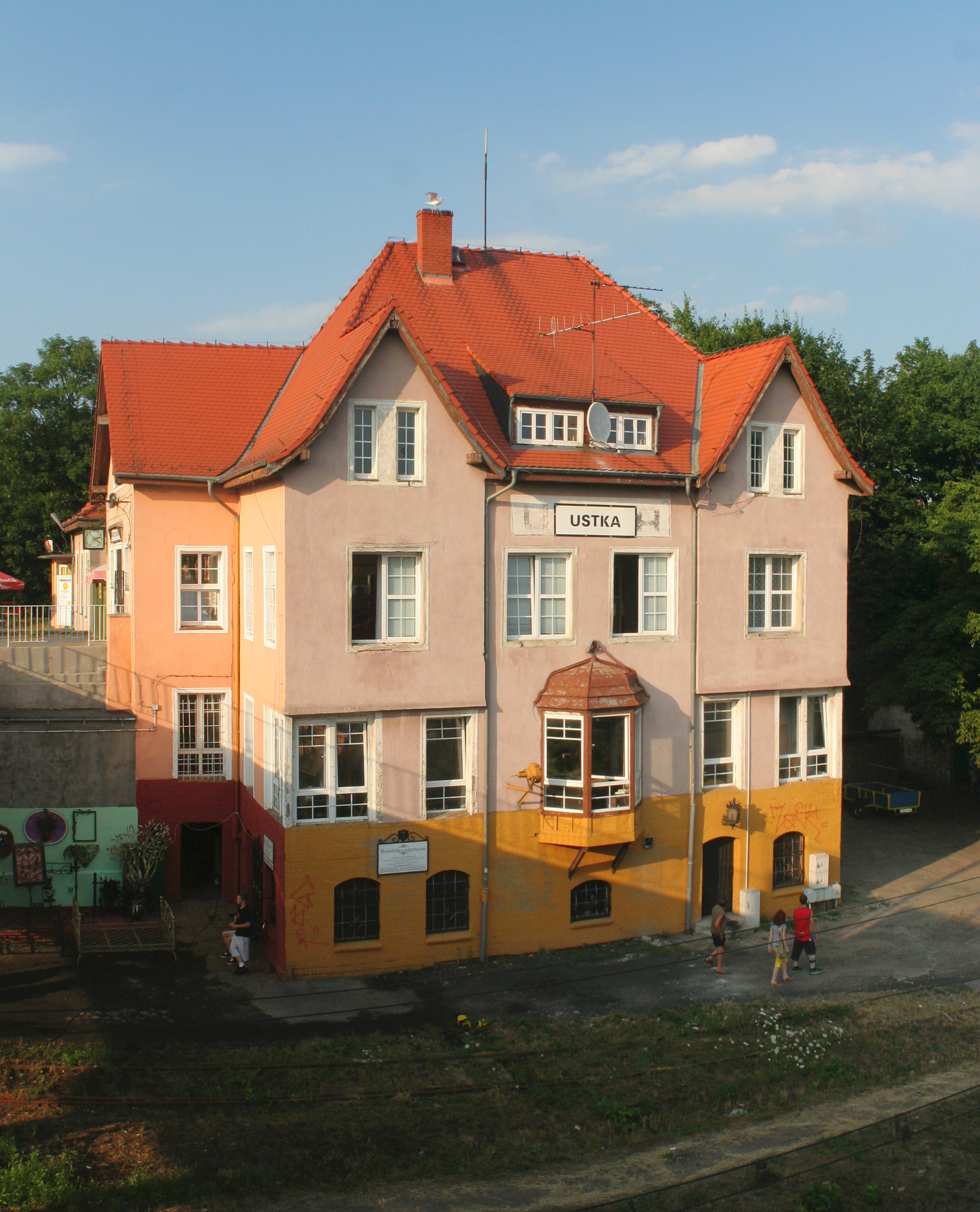 Ustka train station.